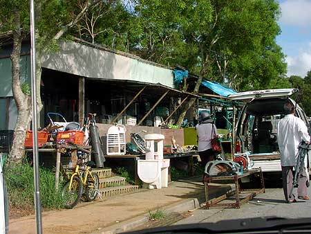 Chibana Flea Market